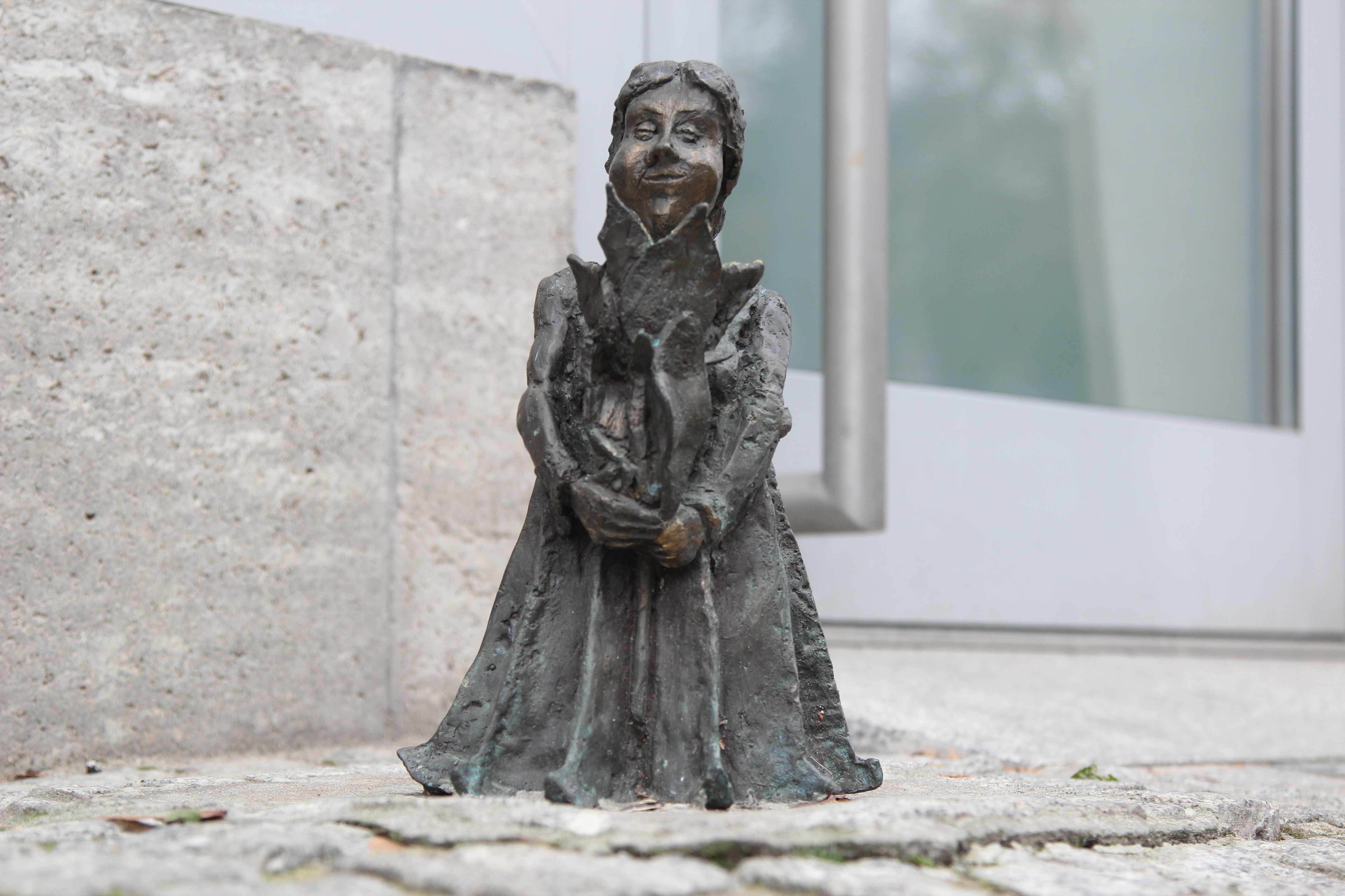 Pretty Mary (Marysia Pięknisia) dwarf from Widok.